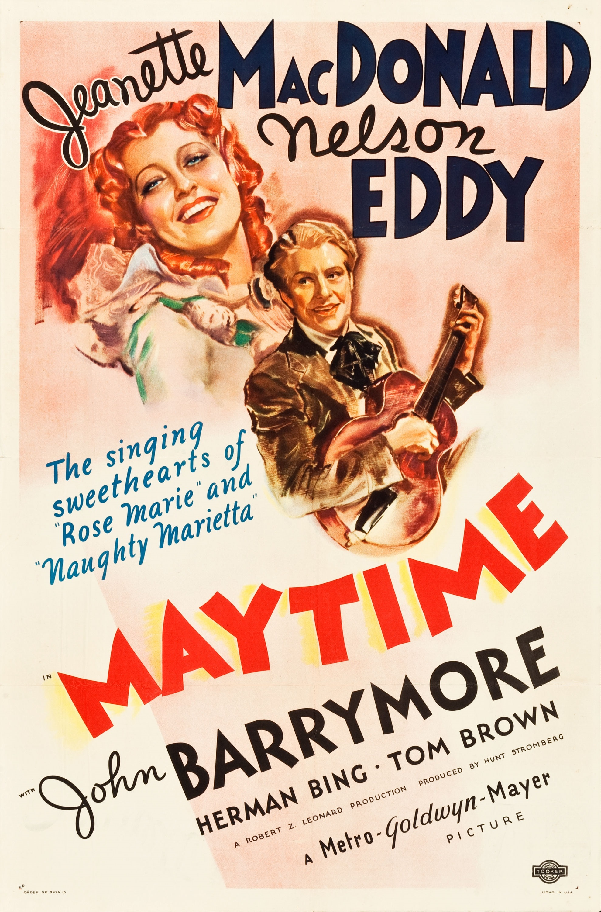 Poster for the 1937 film Maytime.. The item has no copyright markings on it as can be seen in the links above. At bottom left is "D" (poster version D) Order no. 9474-D. At bottom right is a logo for Tooker Litho Co. NY-they printed the poster-and Litho in USA.